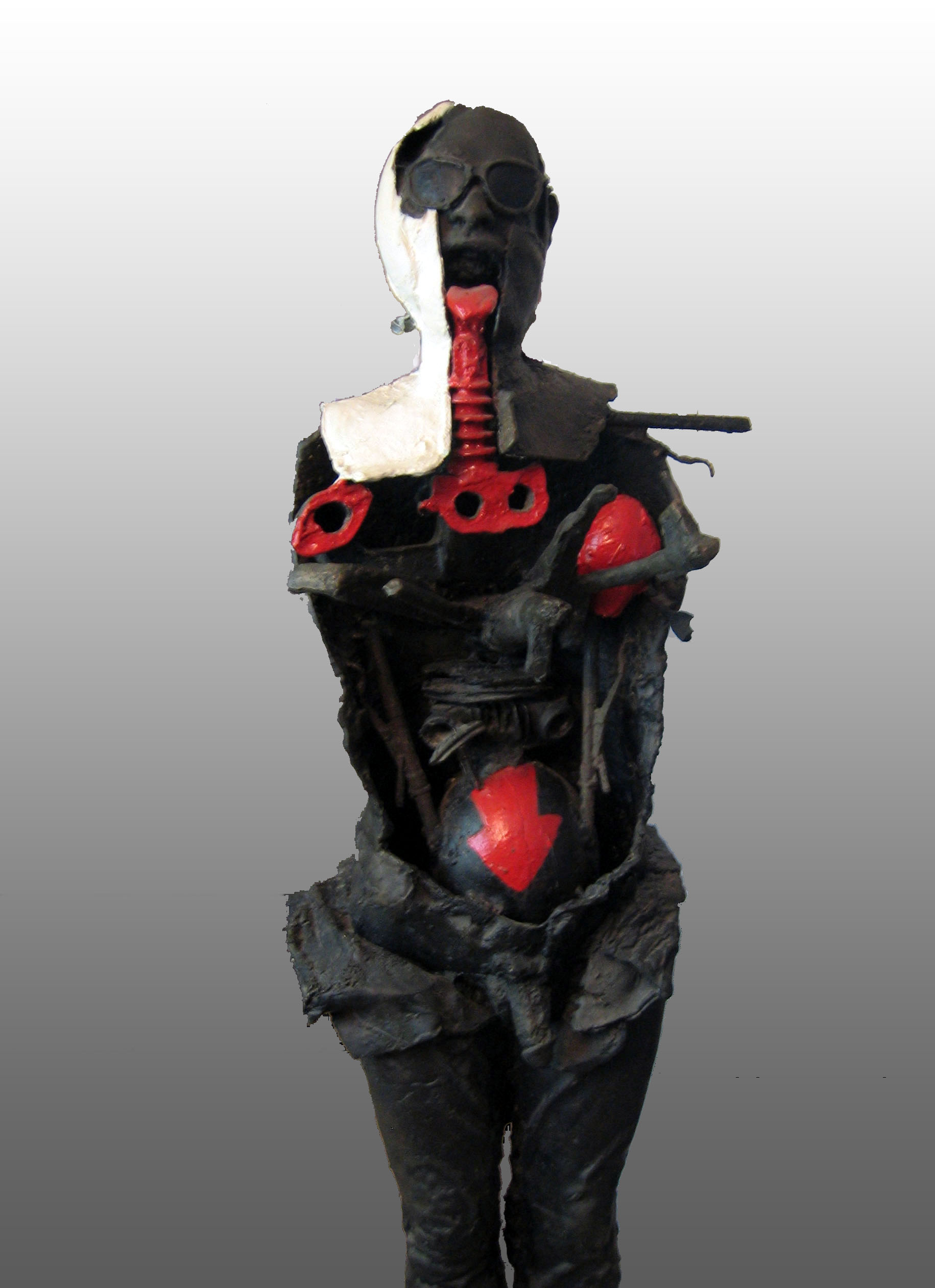 He Walked through the Fields (1967) by Yigal Tumarkin. Bronze, Partly painted, 175x46x48 cm. photo by Yair Talmor (Talmoryair (talk)) at Yigal Tumarkin House in Tel Aviv-Yaffo, 2008.